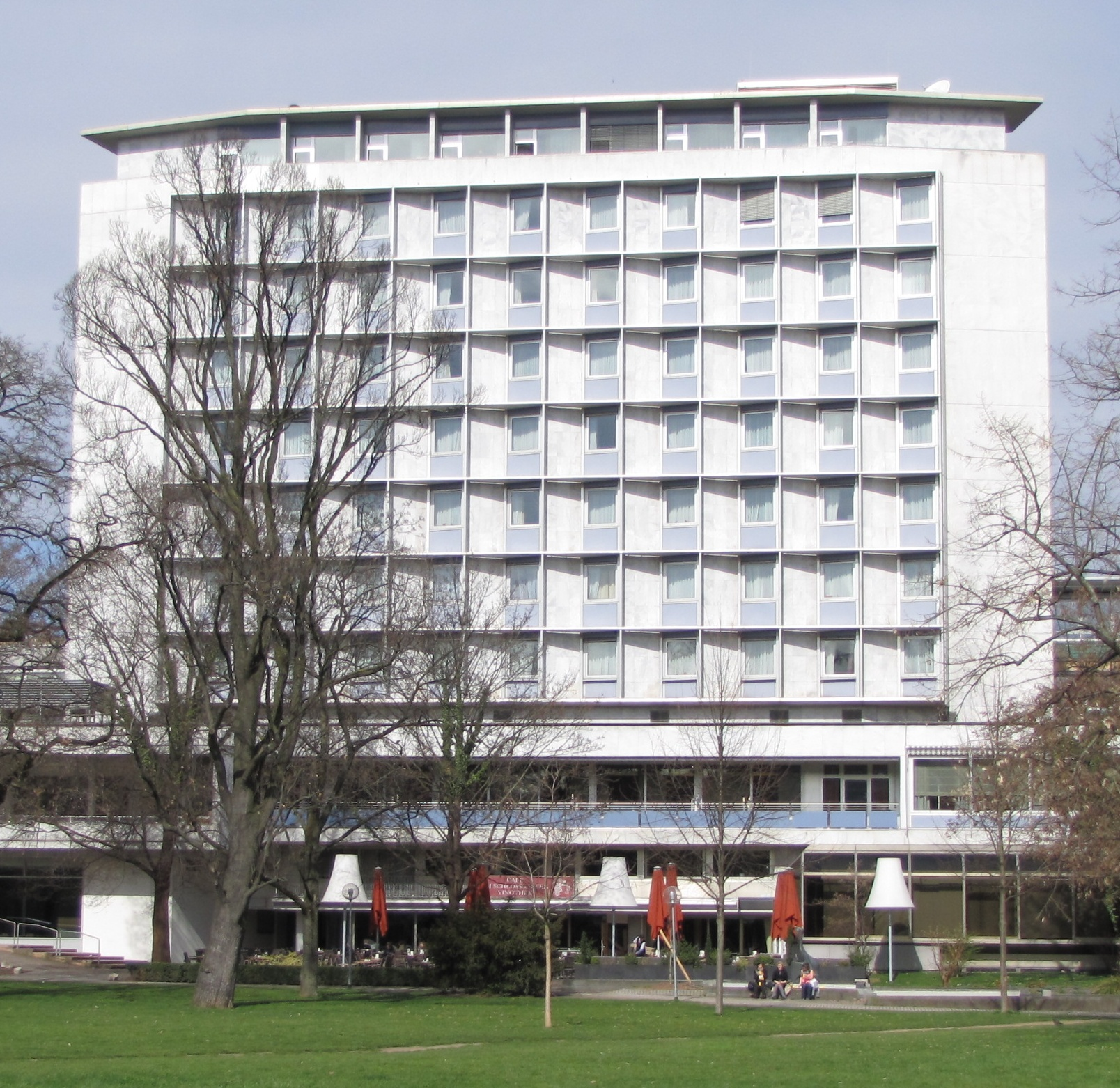 Hotel am Schlossgarten in Stuttgart